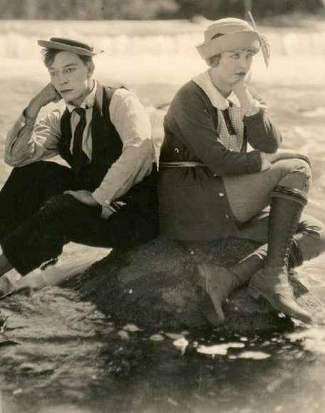 Buster Keaton and Phyllis Haver in The Balloonatic (1923) - publicity still